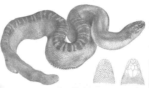 This is an image entitled "Hydrus Stokesii" from Volume 1 of John Lort Stokes' 1846 book Discoveries in Australia. The animal depicted is Astrotia stokesii (Stokes' Sea Snake).